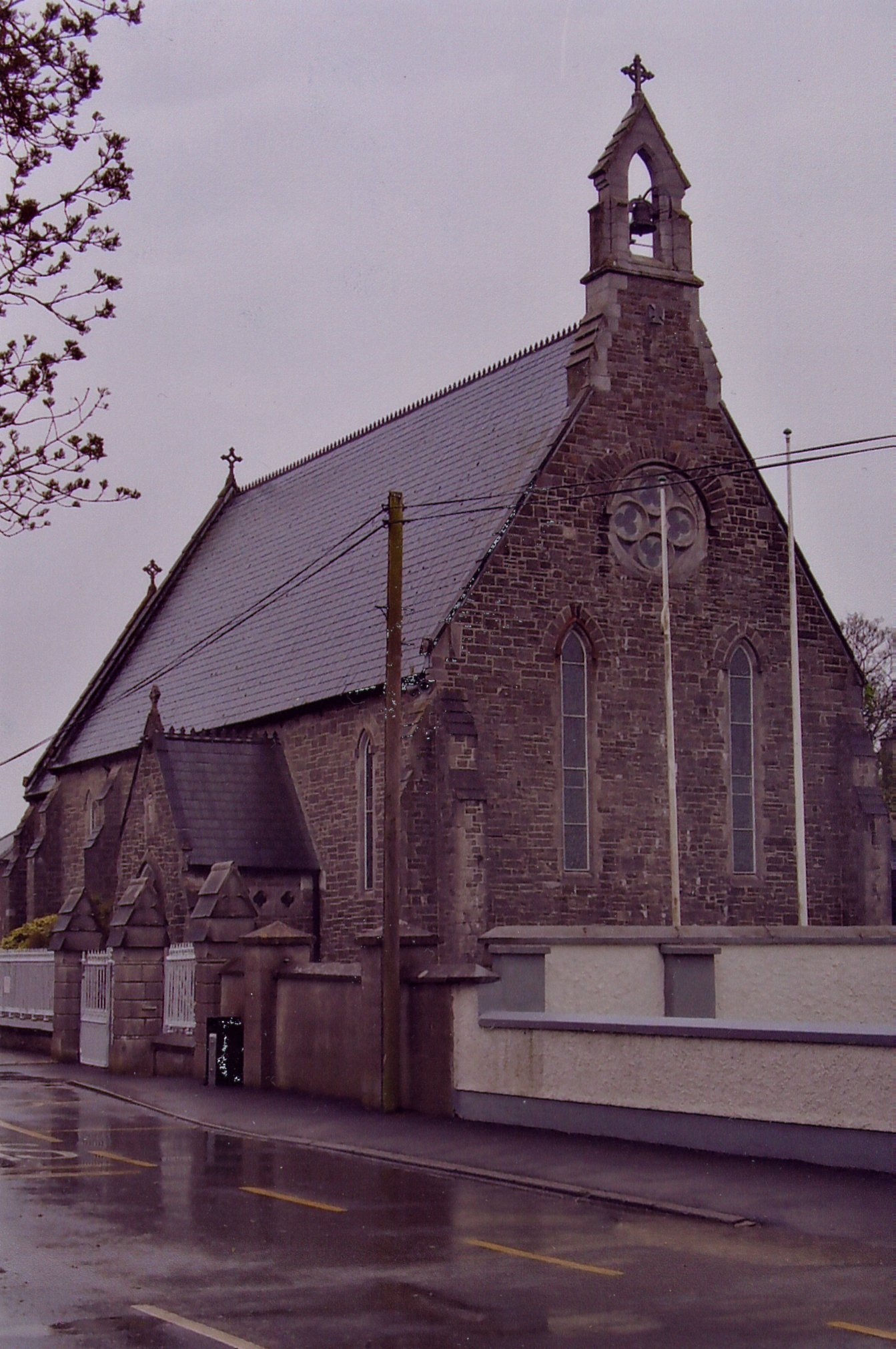 This is St Brigid's Church, Rolestown